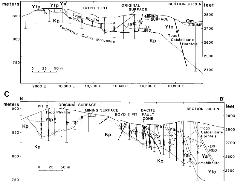 USGS Midnite Mine geological cross sections